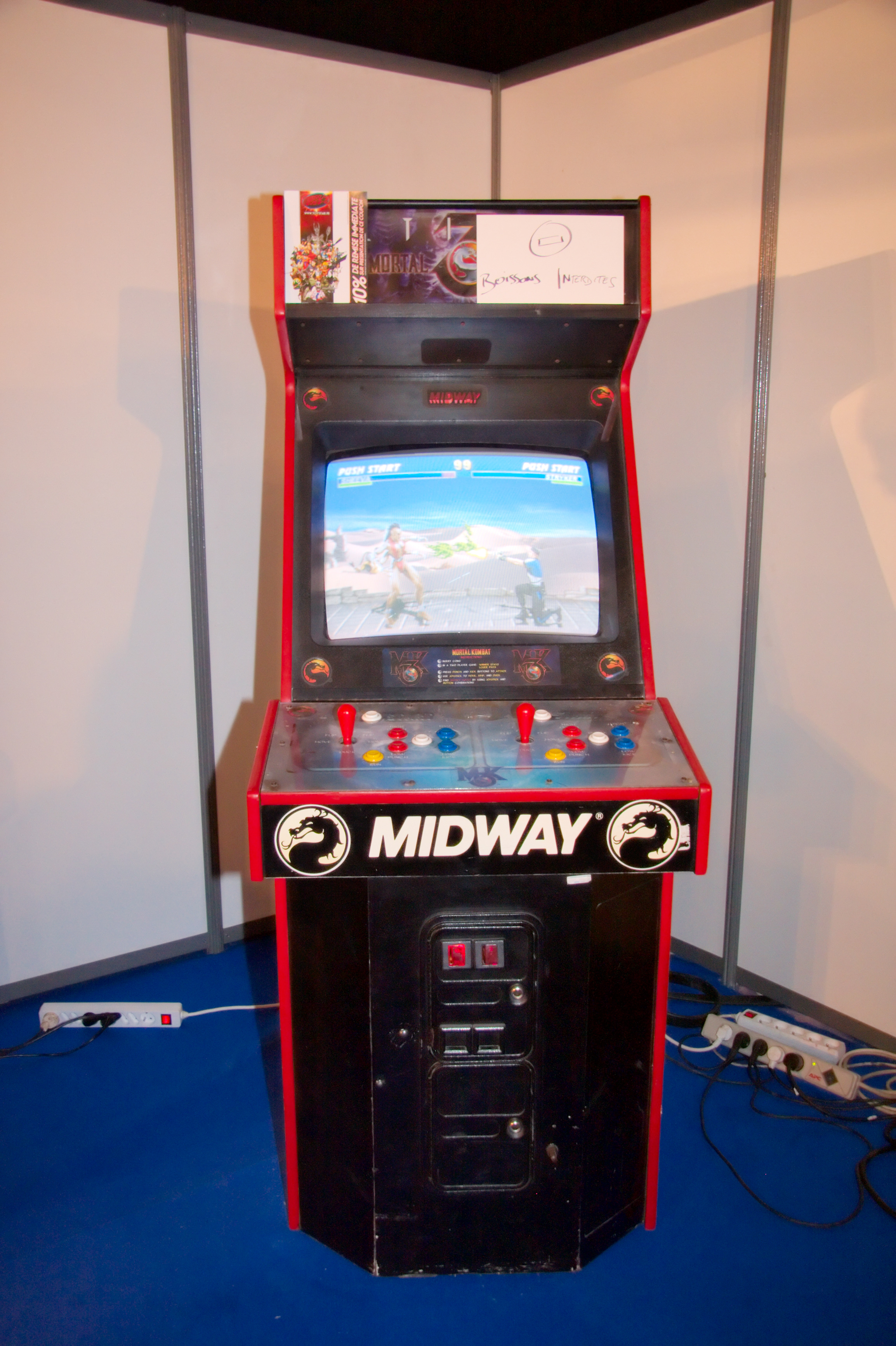 Festival du jeu vidéo 2008 (video game festival) (Paris, France).